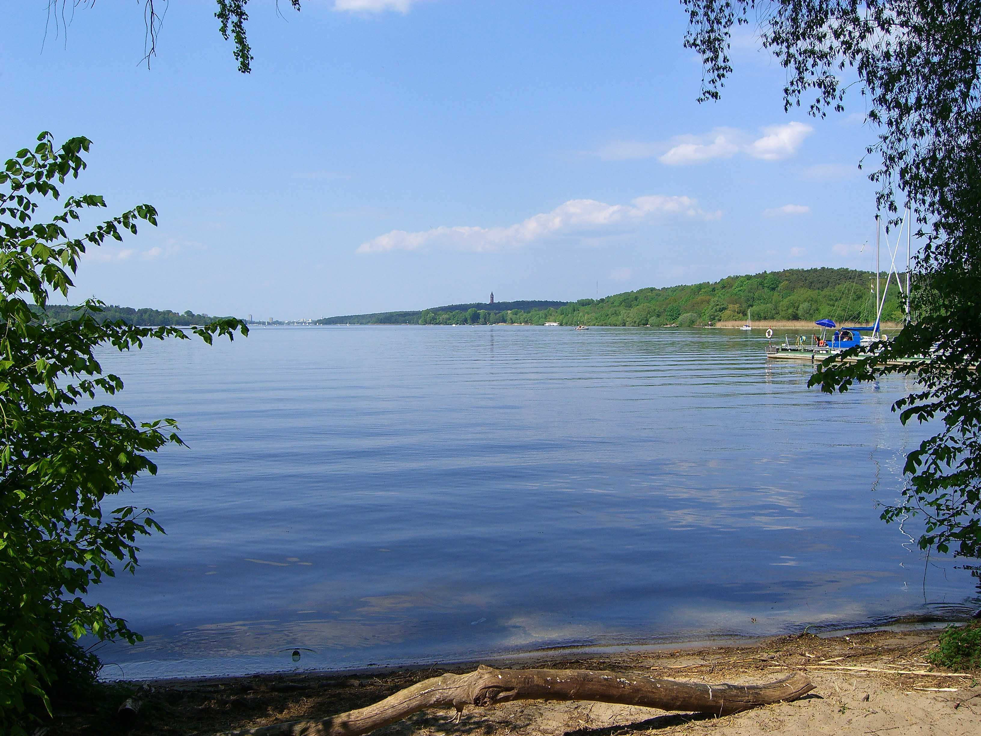 The river "Havel" at Berlin